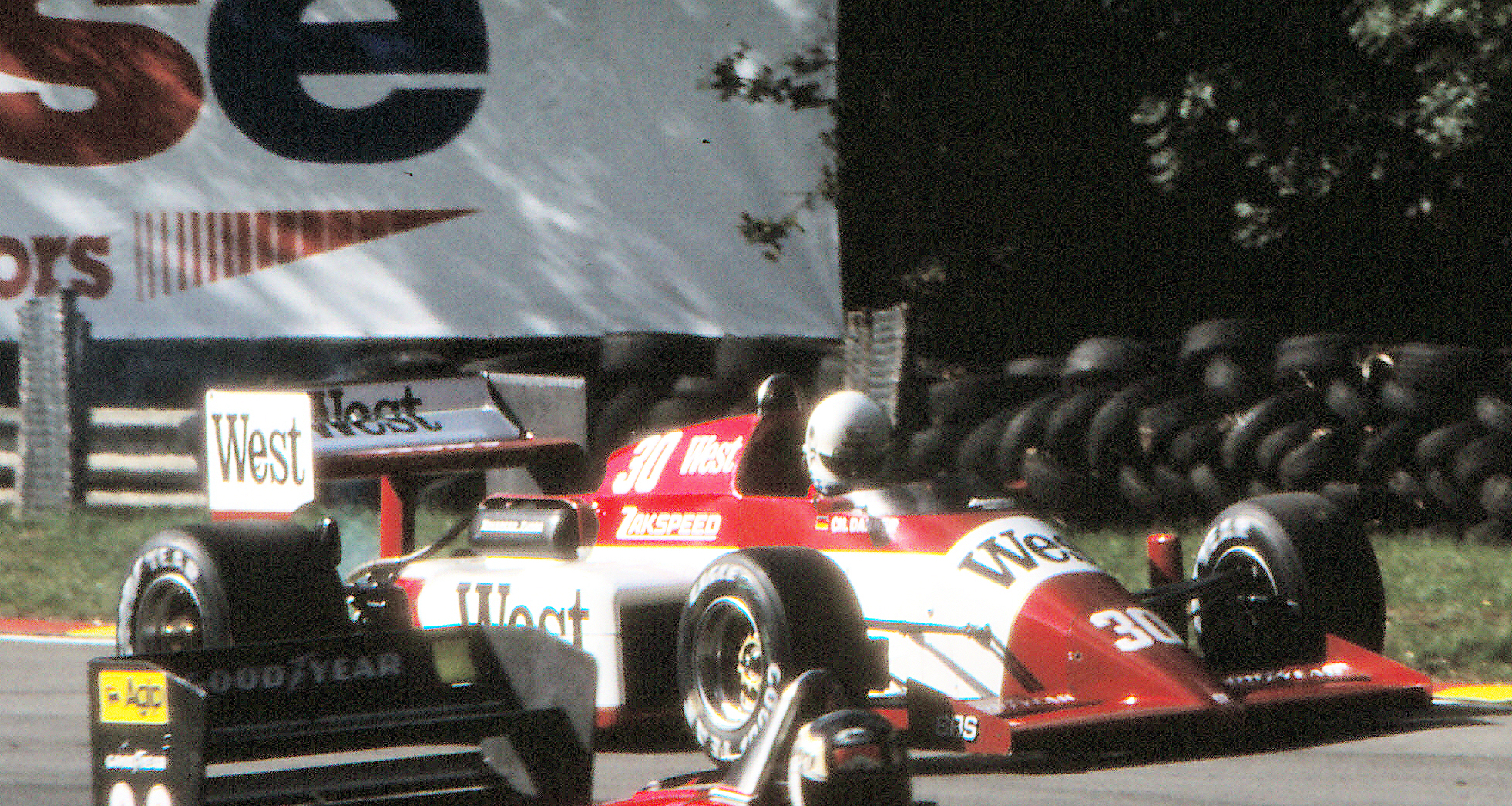 during practice for the 1985 European Grand Prix